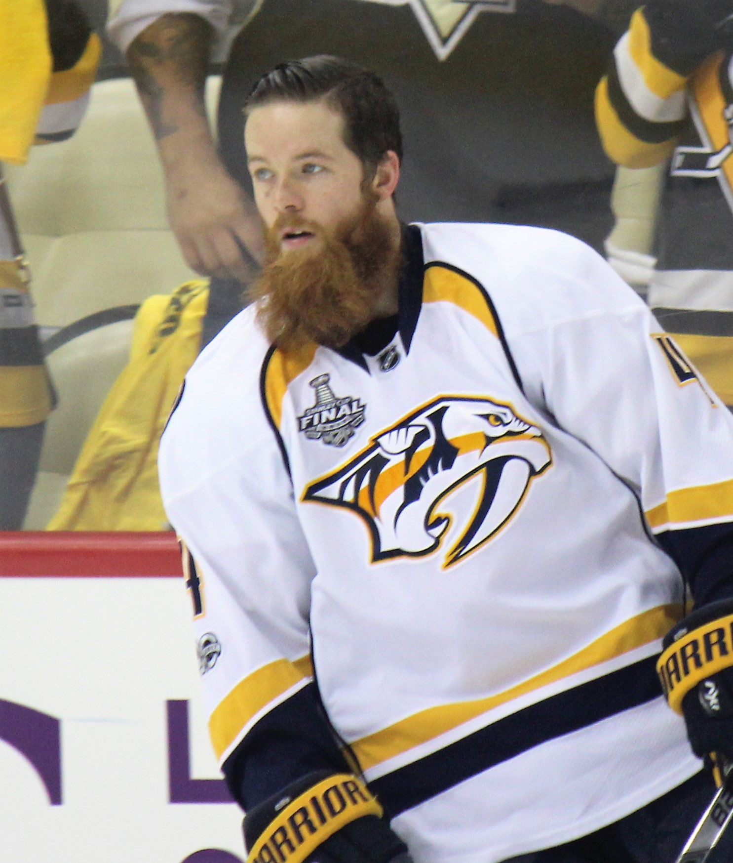 Nashville Predators defenseman Ryan Ellis game 5 of the Stanley Cup Final against the Pittsburgh Penguins, June 8, 2017, at PPG Paints Arena in Pittsburgh, PA.